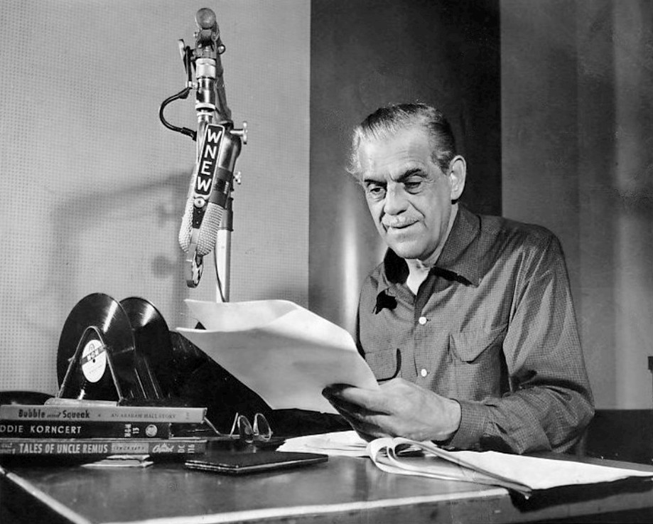 Photo of Boris Karloff doing his weekly radio show at WNEW, New York. Karloff hosted the weekly program in the late 40s-early 50s. The show started out as a radio show for children--Karloff told stories, riddles and played children's music--but the program became popular with adults also.